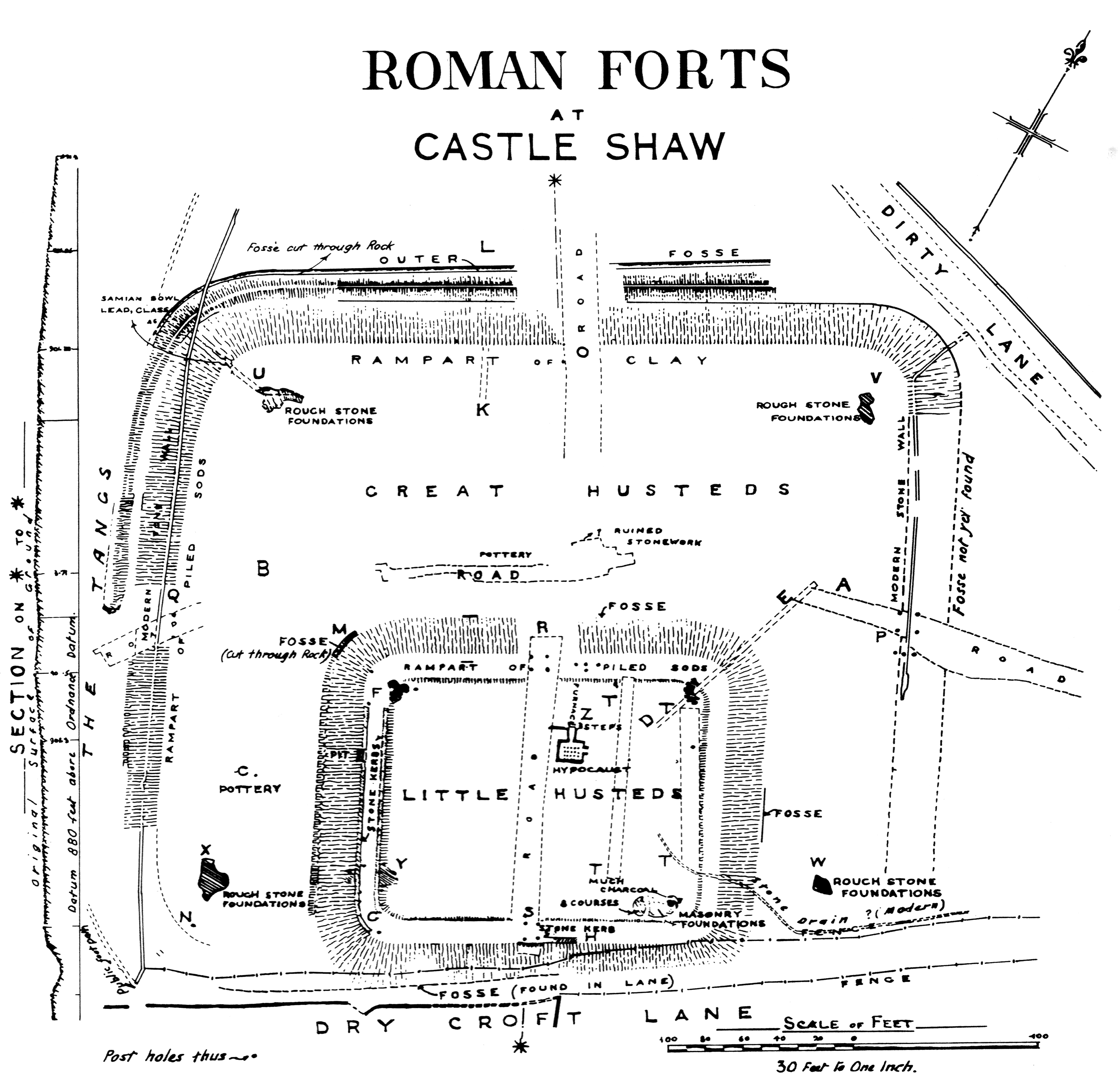 A plan of Castleshaw Roman fort drawn by antiquarian Francis Bruton